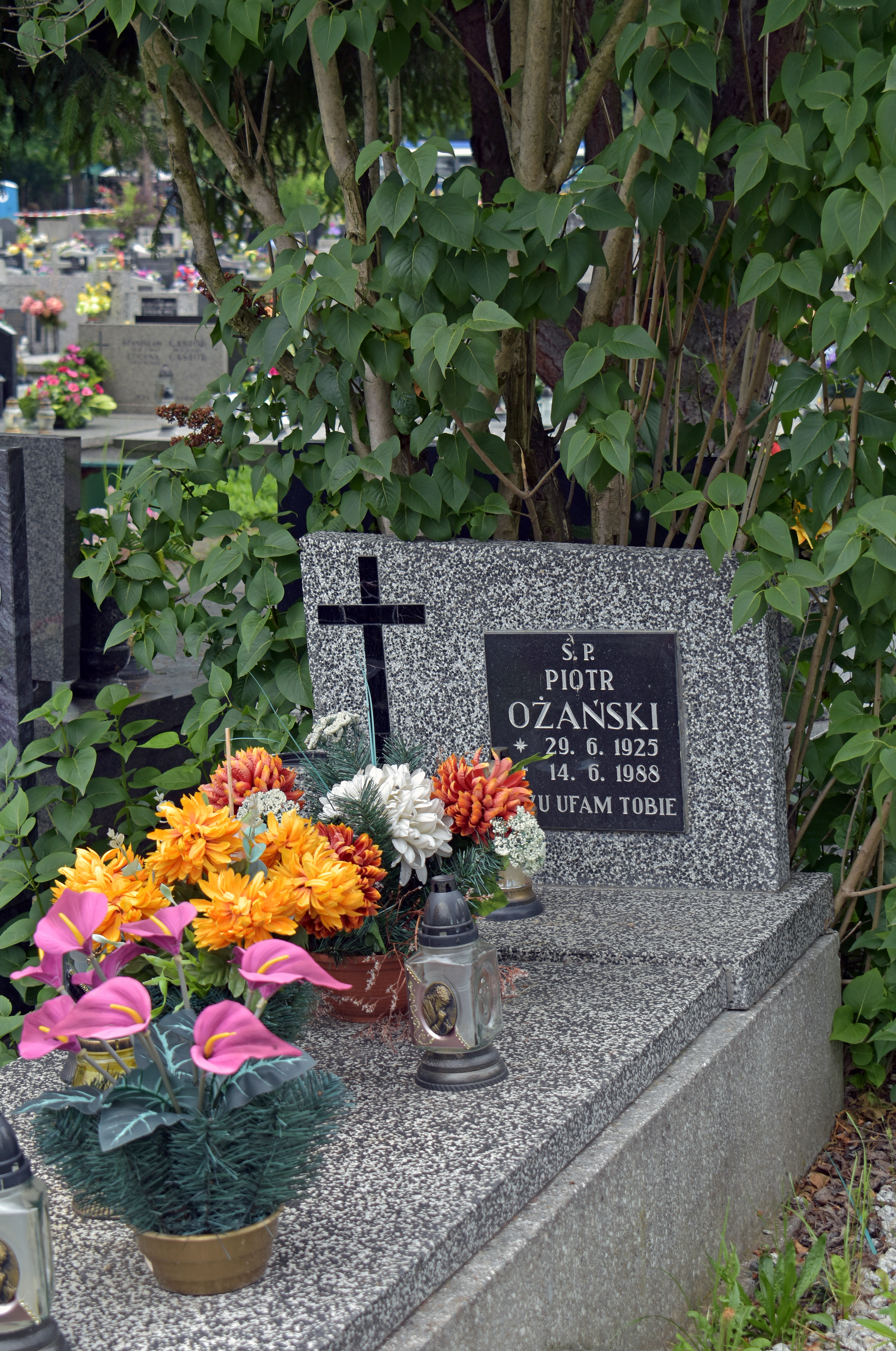 Grave of Piotr Ożański (Polish worker), Grębałowski Cemetery, 1 Darwin street, Nowa Huta, Kraków, Poland